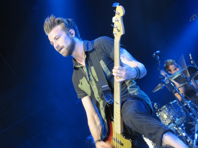 Jeremy Davis Paramore 8-16-2010